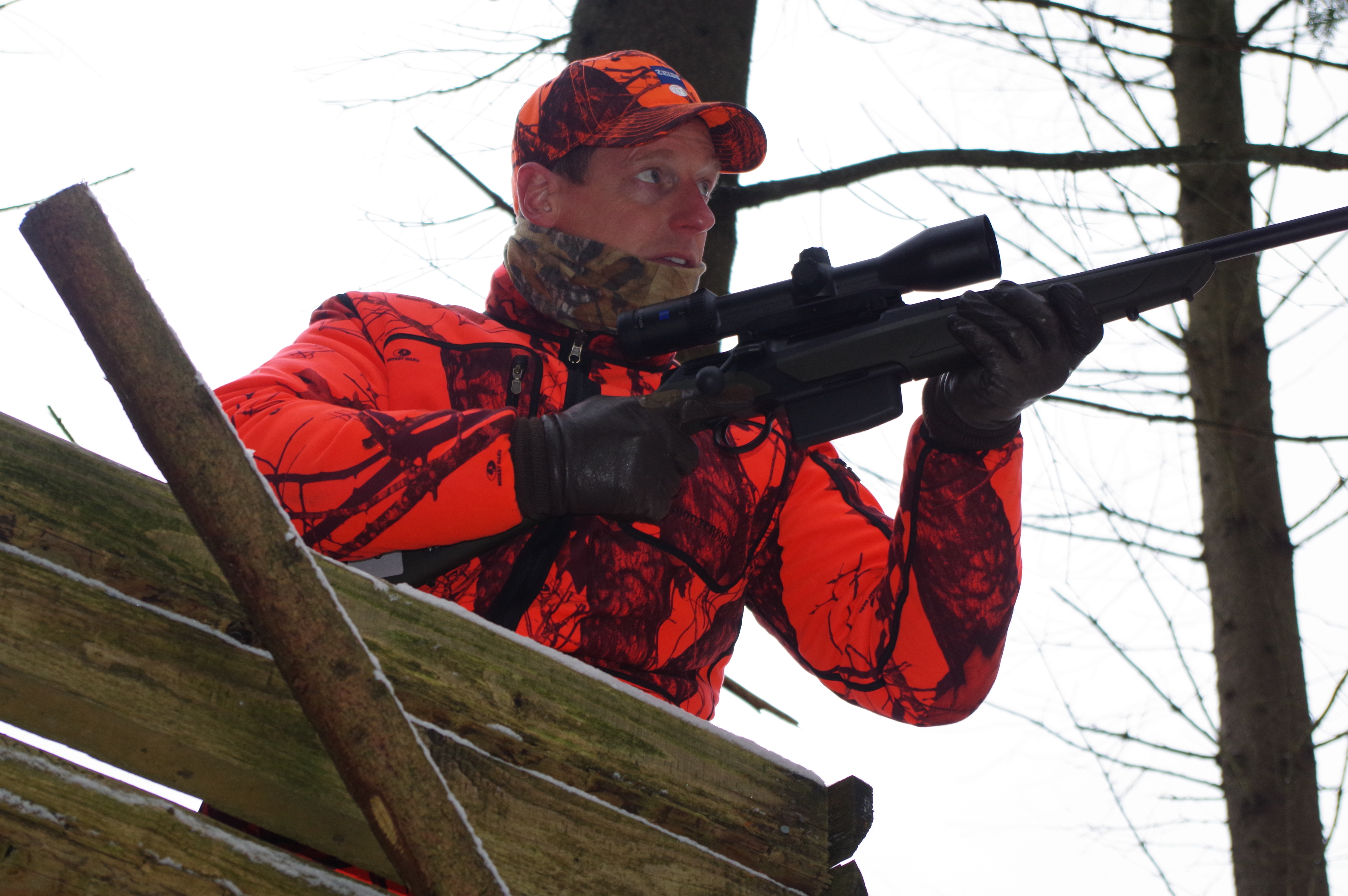 Paul Childerley during a driven hunt on the Solms-Laubach forest estate (Forstbetrieb Solms-Laubach) near Laubach Castle in Germany using a Merkel Helix in .30-06 Springfield with a Zeiss V6 rifle scope